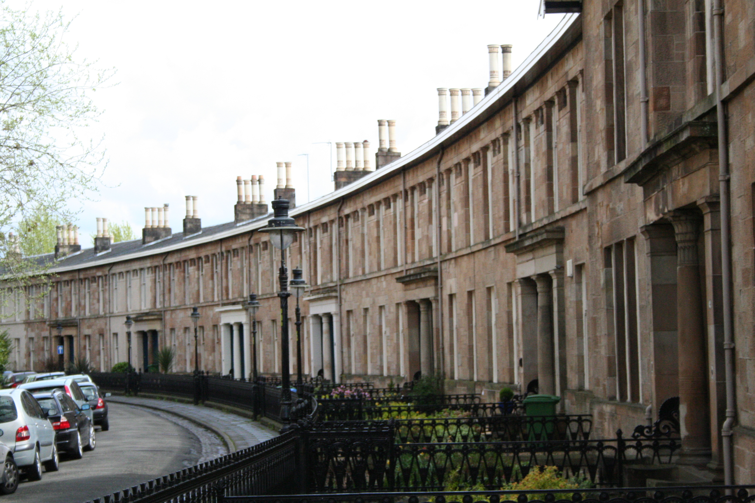 Millbrae Crescent (Langside, Glasgow), as viewed from Millbrae Road / Tantallon Road. Designed by Alexander 'Greek' Thomson.